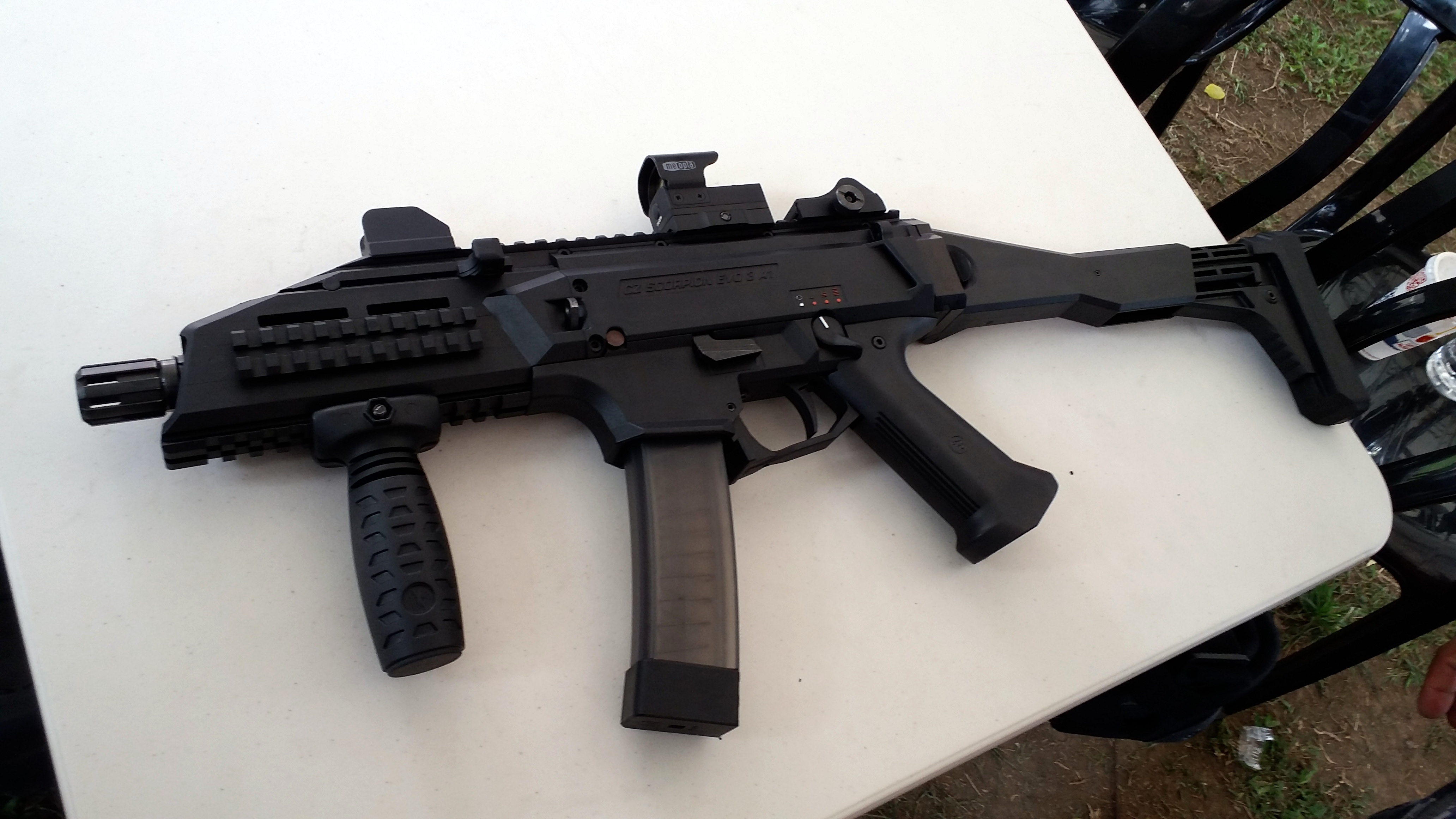 A Scorpion Evo 3 Sub-Machine Gun of the Philippine Coast Guard Special Forces Unit. Photo taken during the 2015 AFP Independence Day Static/Capability Display at the Lapu-Lapu Monument Area in the Luneta Park.